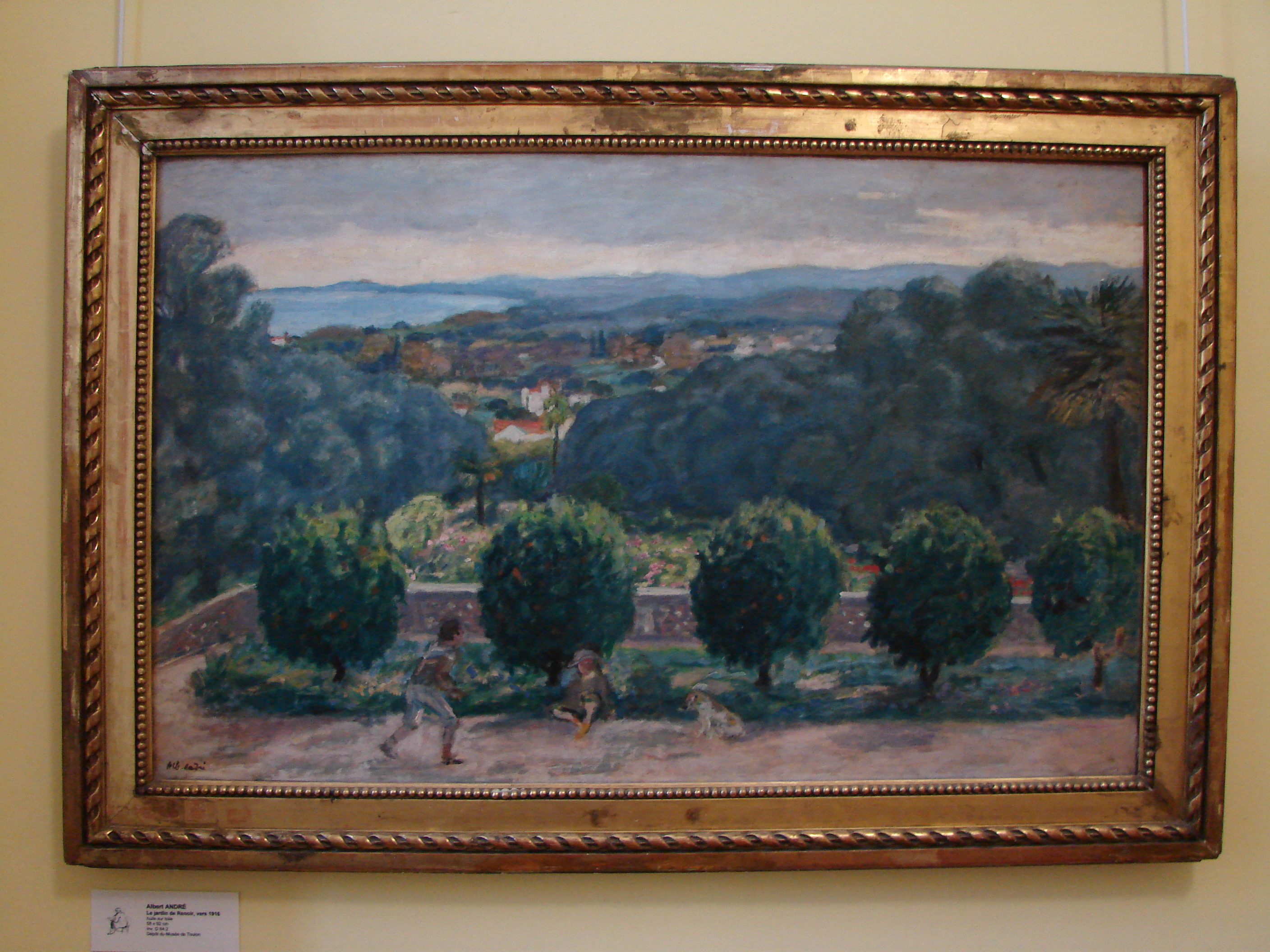 View of Renoir's garden at Cagnes-sur-Mer